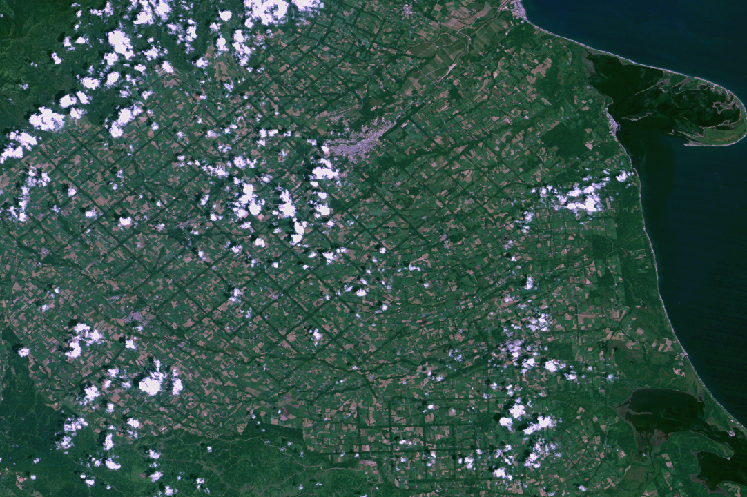 Satellite photograph that copied lattice shelterbelt of Konsen plateau in East Hokkaido in Japan. This shelterbelt can be seen on the orbit. A green net is it.